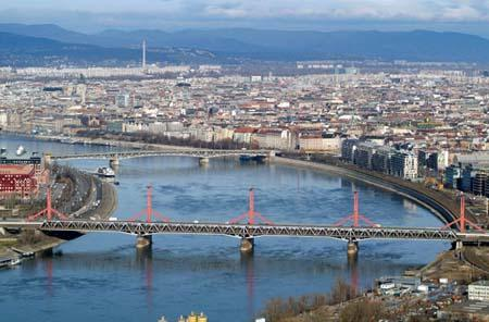 Lágymányosi bridge, Ferencváros, Budapest, Hungary, aerial photography